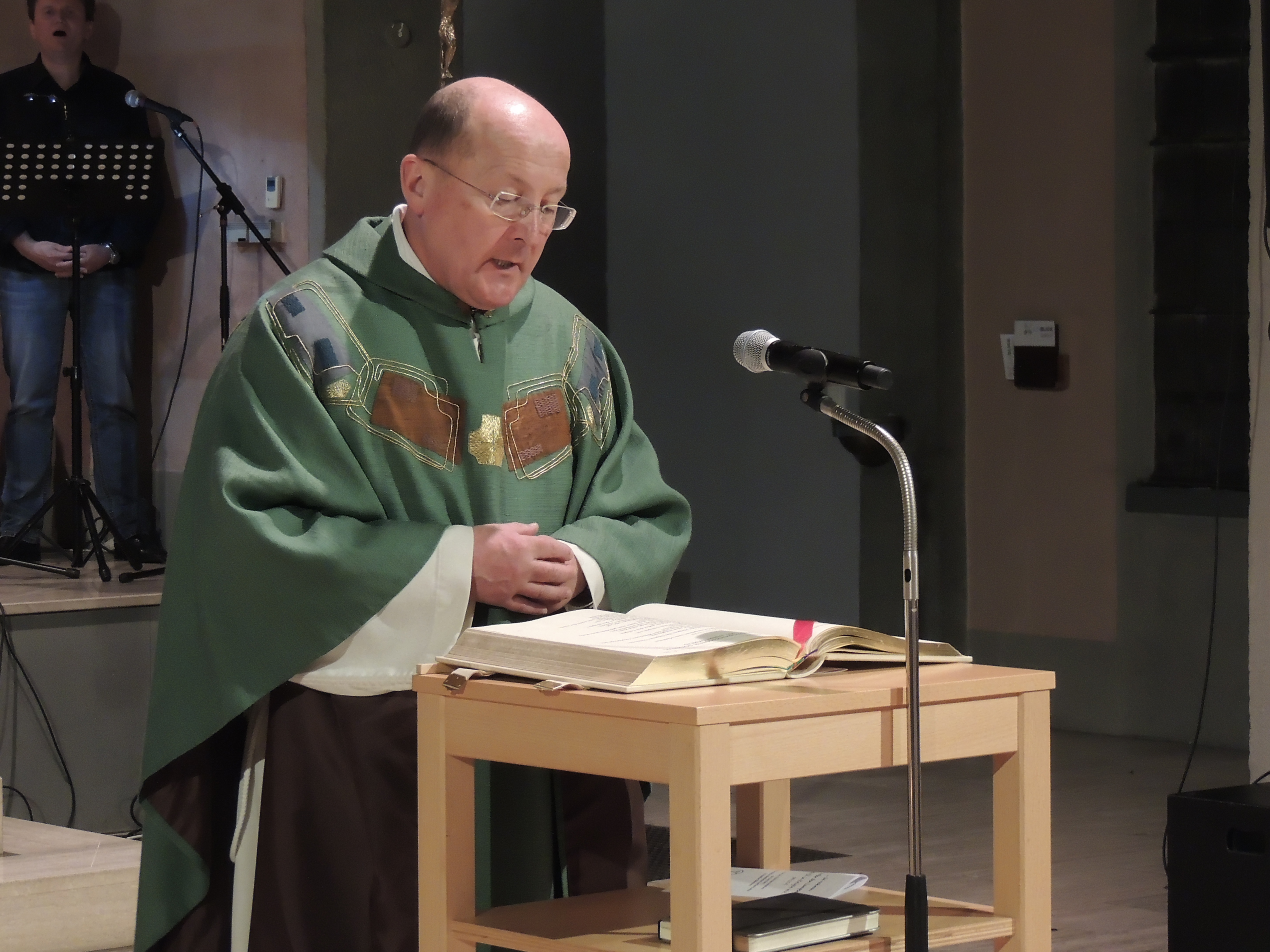 Johannes zu Eltz, roman-catholic dean of Frankfurt am Main in the Holy Cross Church in Frankfurt am Main-Bornheim